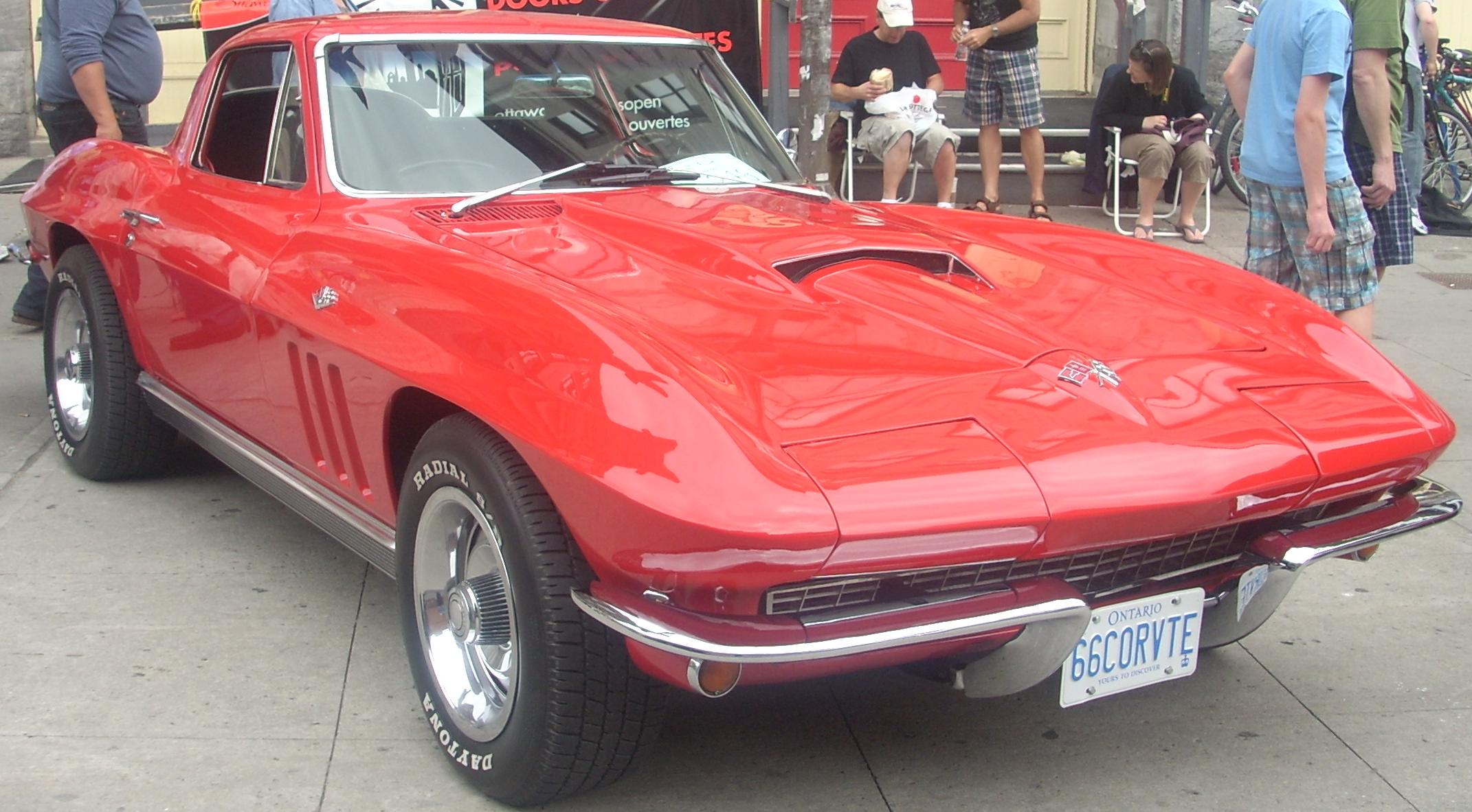 1966 Chevrolet Corvette photographed in Ottawa, Ontario, Canada at the Byward Market Auto Classic 2009.